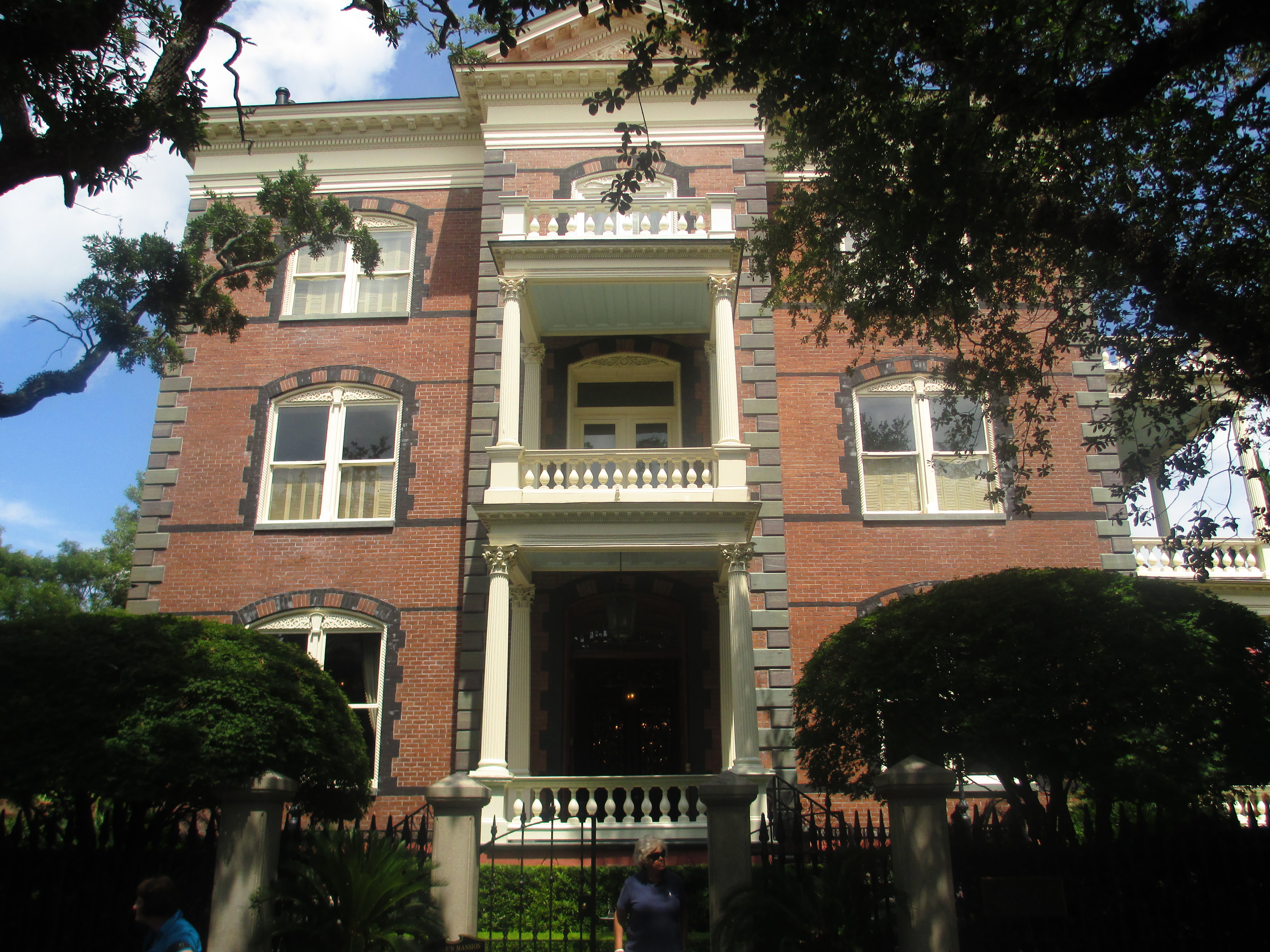 I took photo with Canon camera of The Calhoun Mansion (not home of John C. Calhoun) in Charleston, SC.